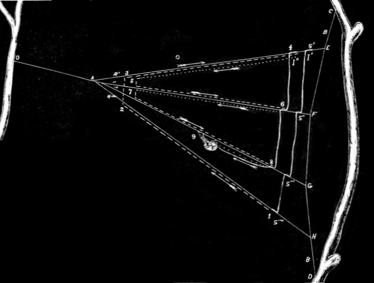 Net in process of formation